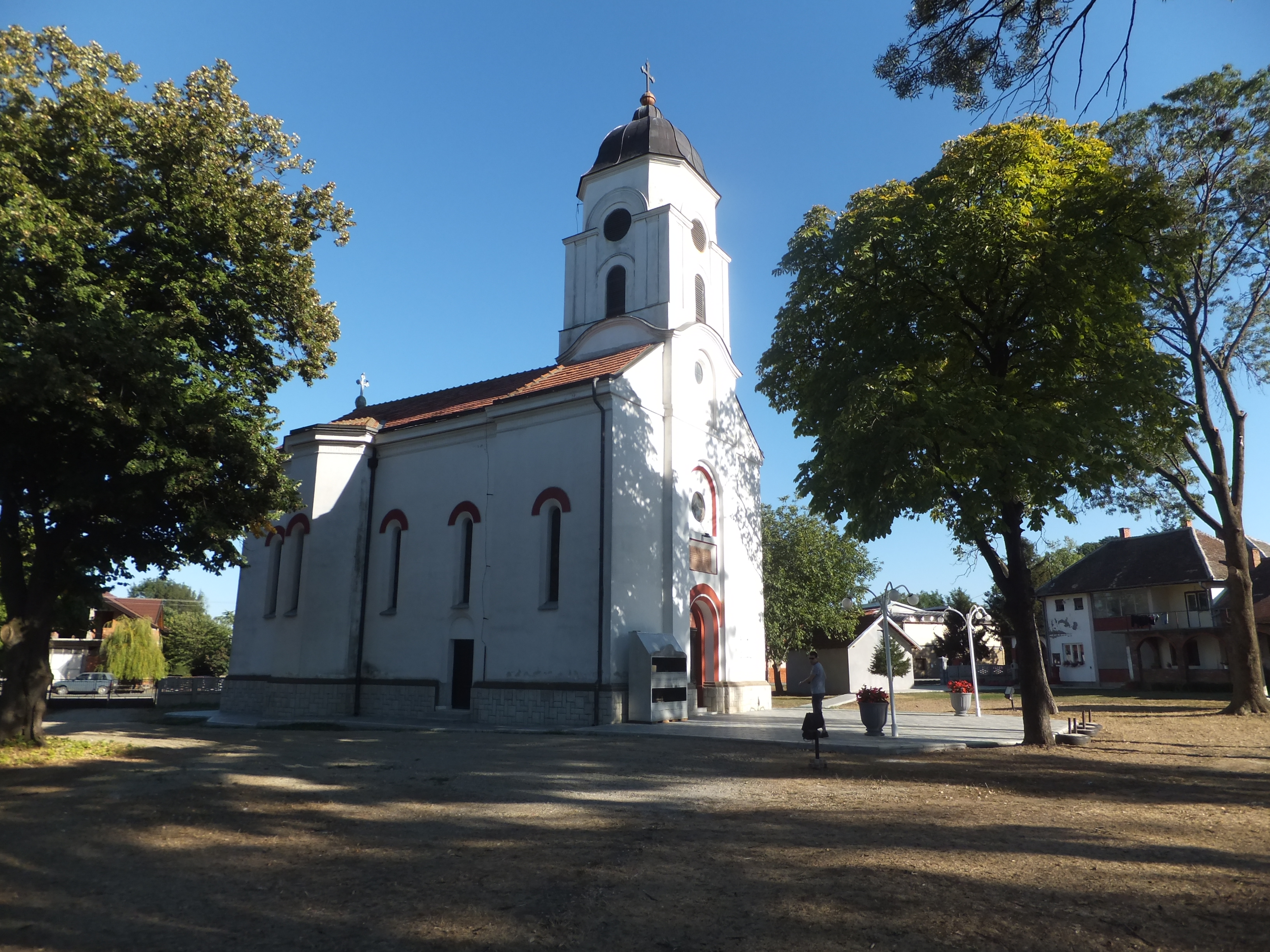 Mihajlovac, Church of Saint Elijah